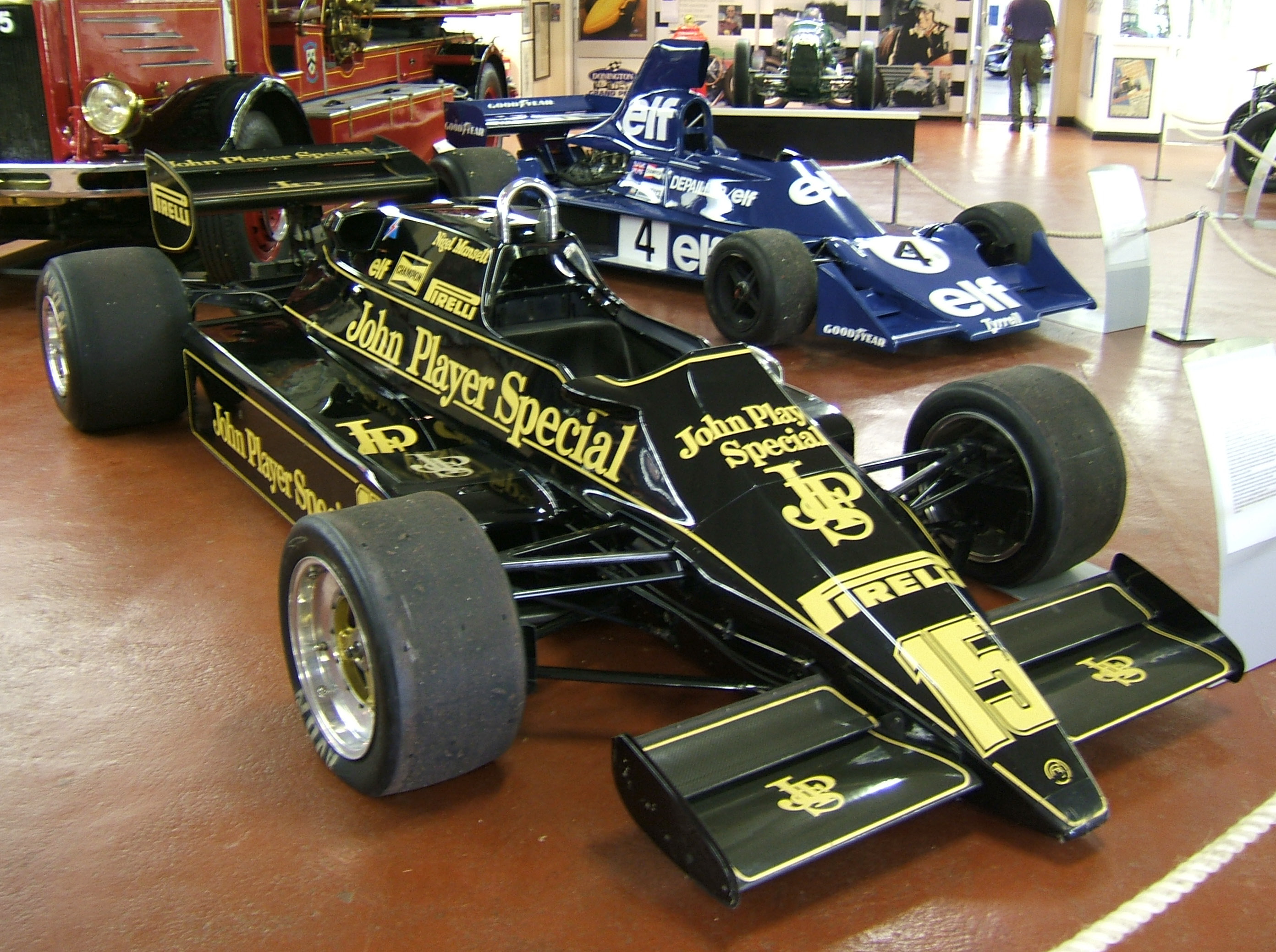 Lotus 92 Formula One car. In the Donington Grand Prix Collection museum, Leics., UK